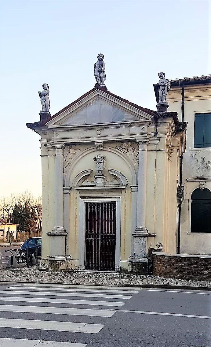 Oratory "Little Church" of Villa Baglioni - Front view